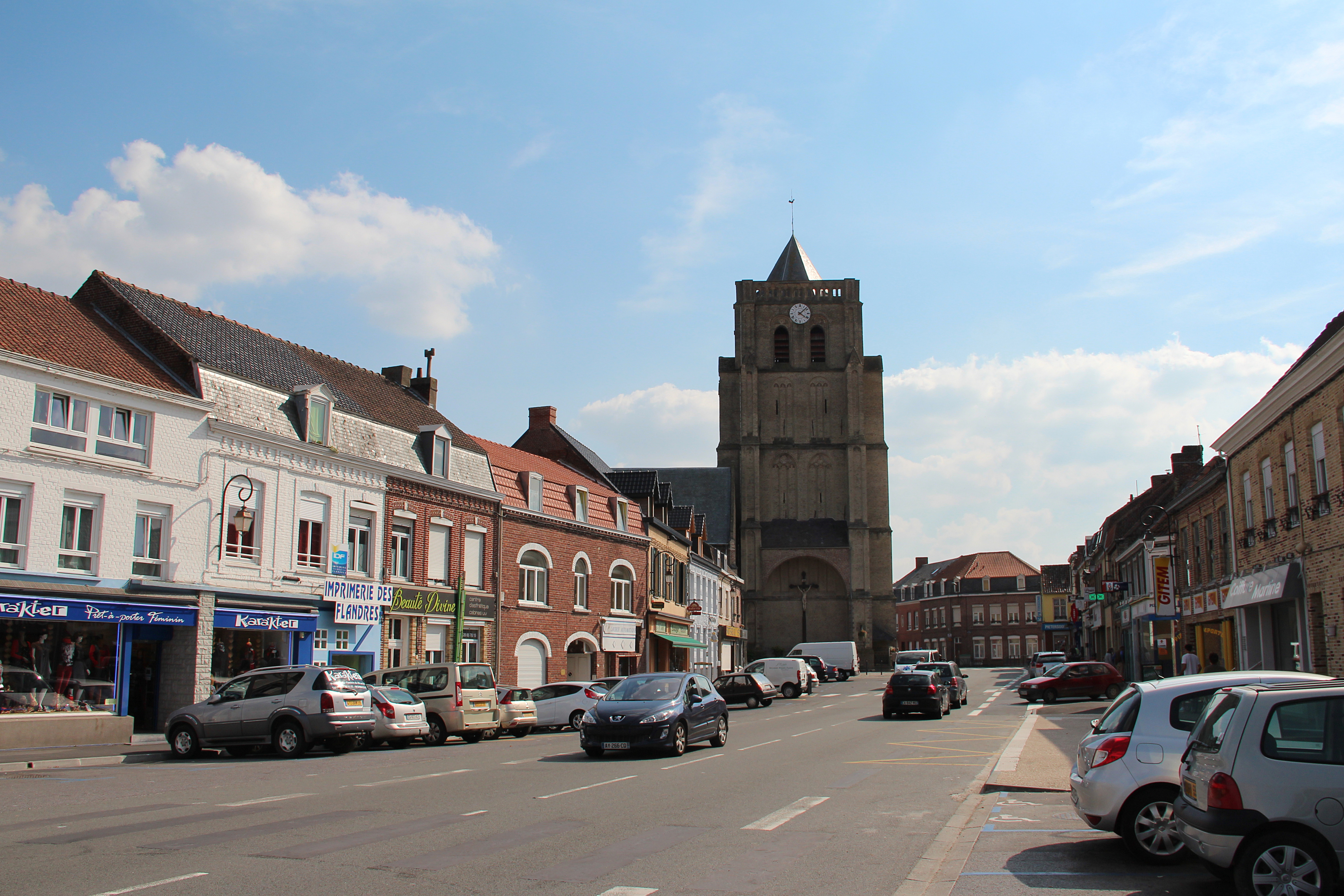 Wormhout (France), the "Place du Général de Gaulle" and the Saint Martin's church (XVI-XVIIth centuries).